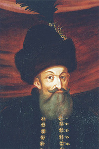 Geroge Rákóczi I Prince of Transilvania